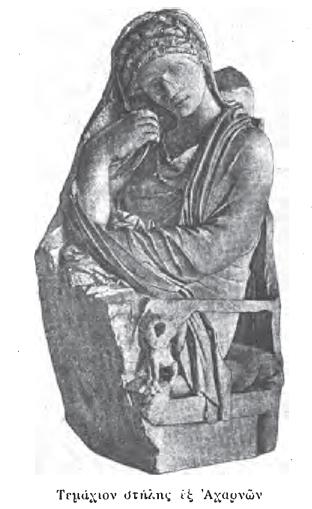 Hestia (1876) Author: Diomedes, Paulos Subject: Greek literature, Modern; Greek periodicals Publisher: [Athēnēsi : s.n. Year: 1894 Possible copyright status: NOT_IN_COPYRIGHT Language: Greek Digitizing sponsor: Google Book from the collections of: Harvard University Collection: americana]